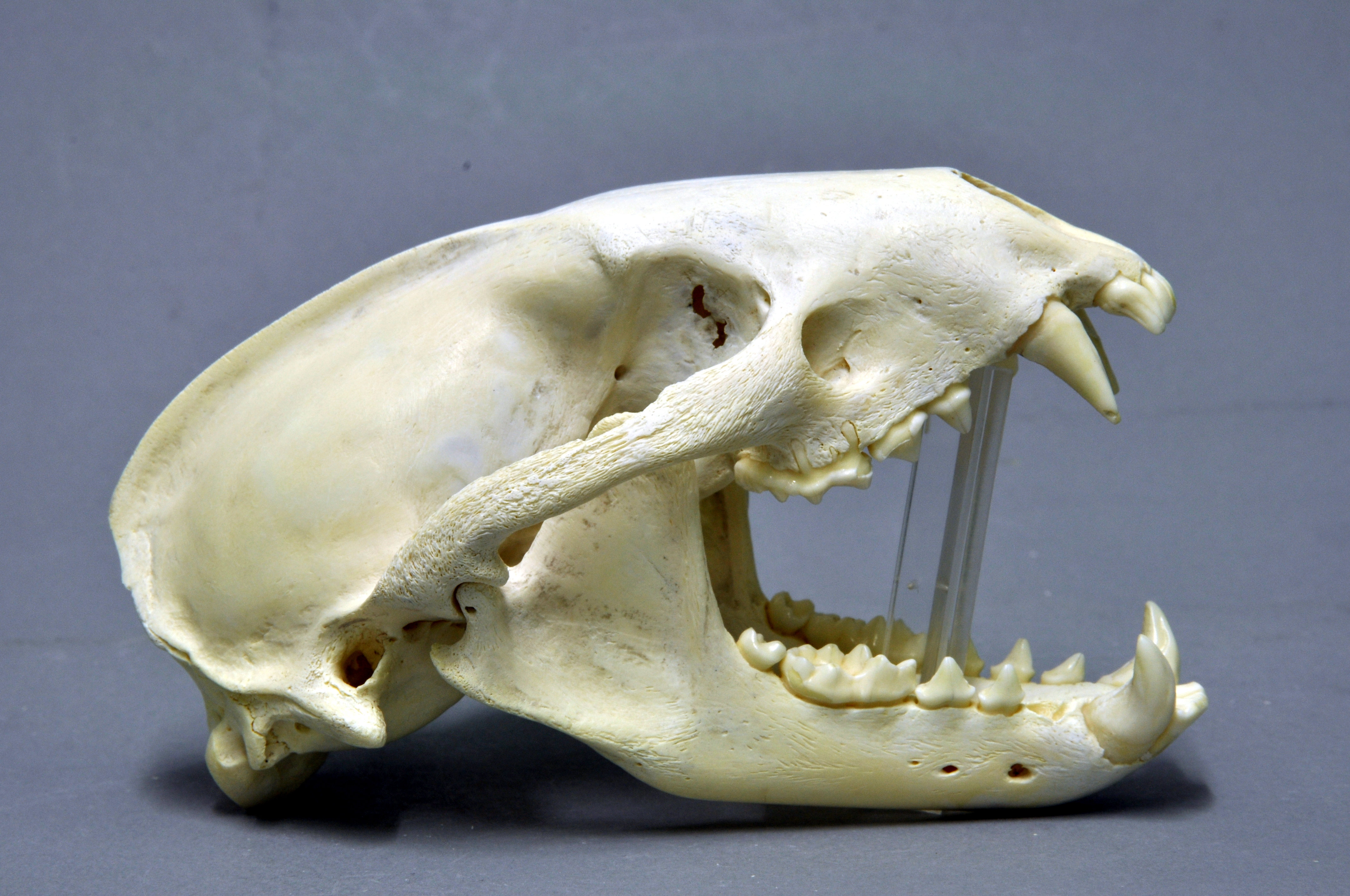 European badger Meles meles , skull, Coll. Museum Wiesbaden